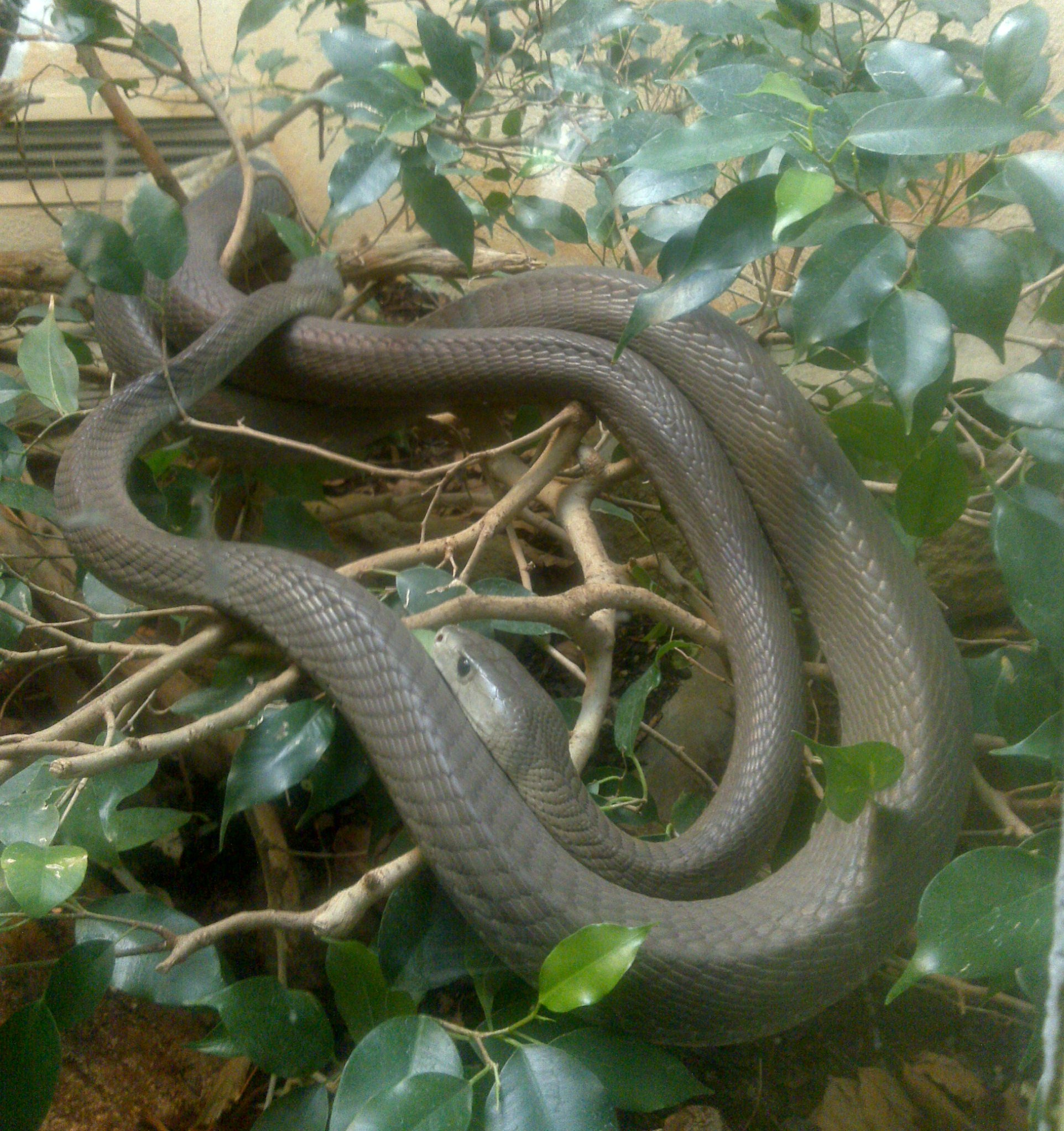 Dendroaspis polylepis, London Zoo